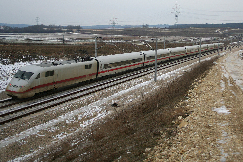 The ICE S, an experimental high-speed train, on the Nuremberg-Ingolstadt high-speed railway line, near the Geisberg-Tunnel